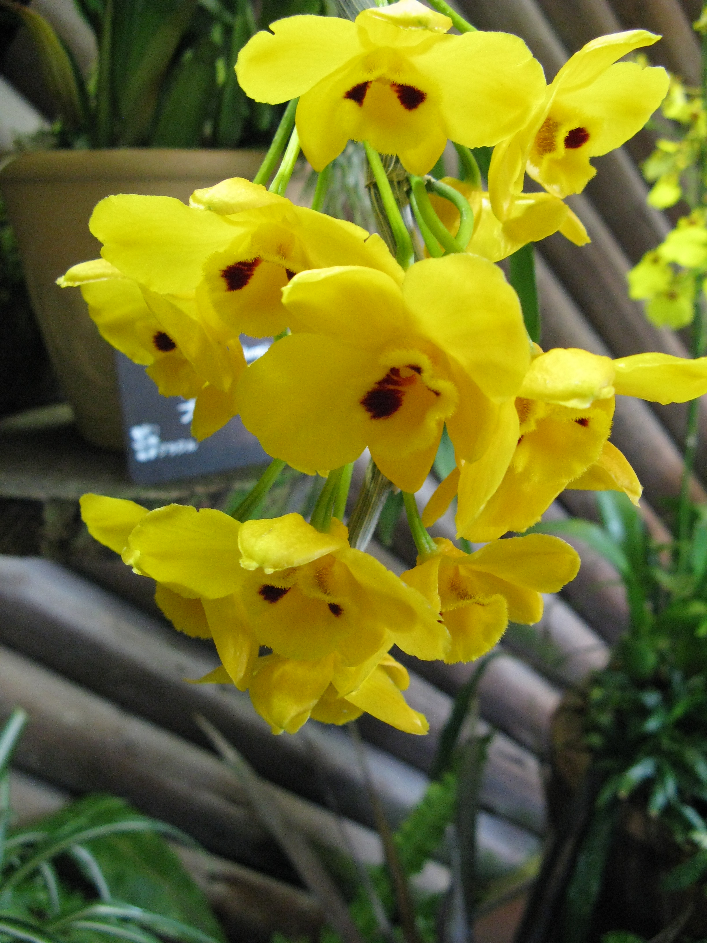 Scientific name Dendrobium chrysanthum